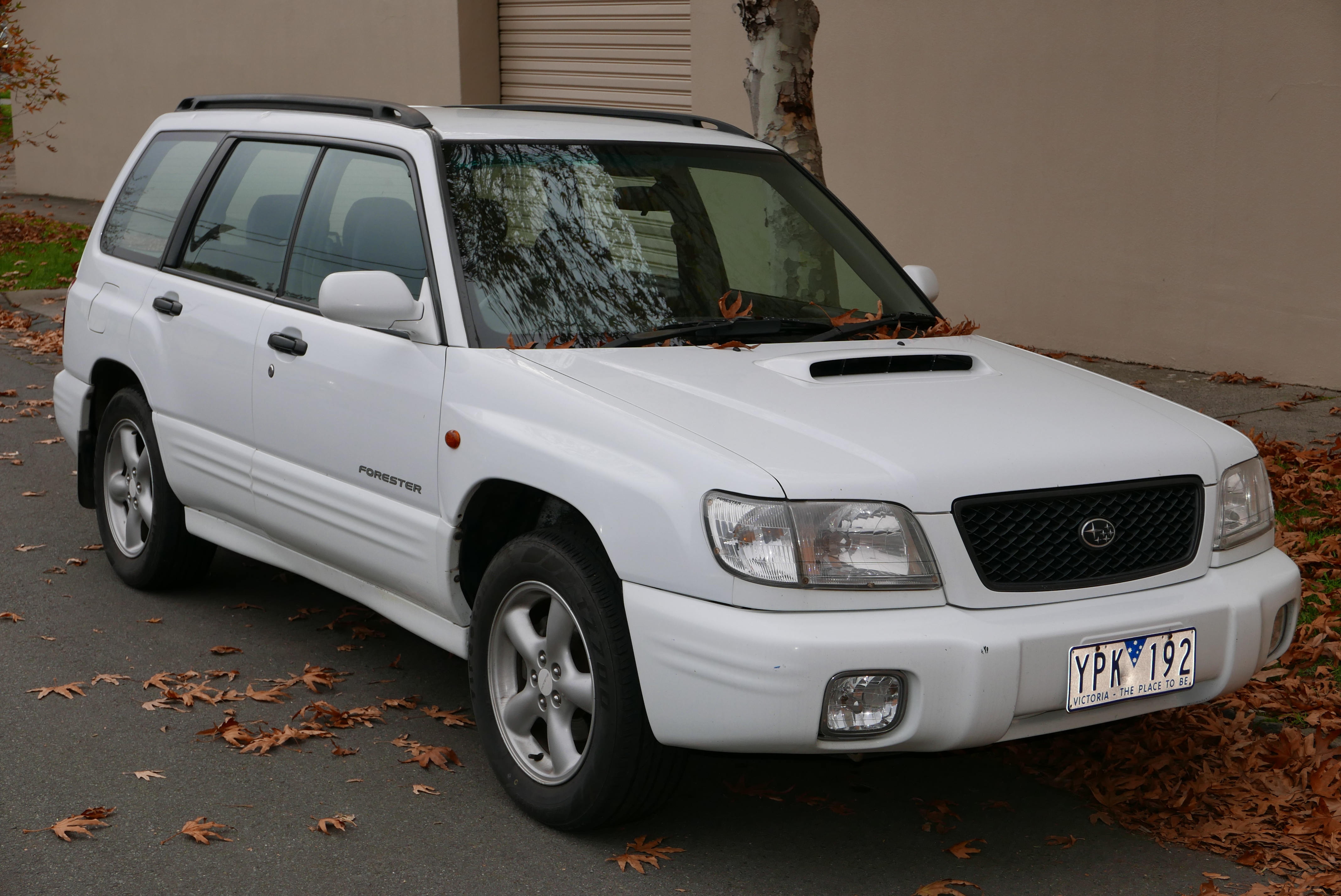 2000 Subaru Forester (SF5 MY00) GT wagon. Photographed in Alphington, Victoria, Australia. Vehicle registration enquiry resultsJurisdictionVictoriaRegistrationYPK192Chassis codeJF2SF5KD3YG041321Engine codeA918929Compliance date2000-05Year of manufacture2000